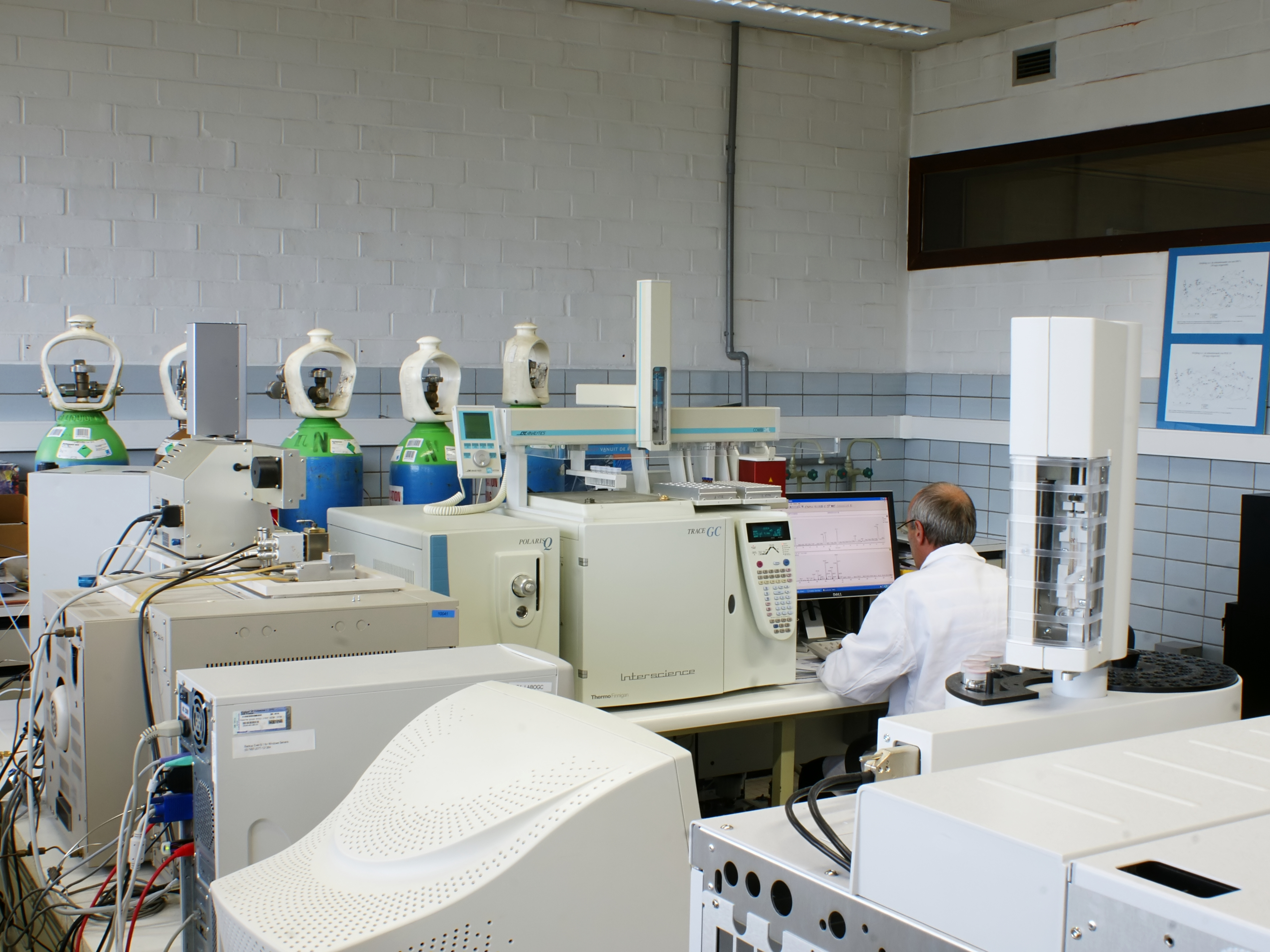 ILVO chromatography lab in Ostend, Belgium